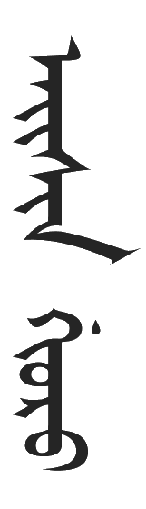 "Aisin Gioro", the clan name of the Manchu emperors, written in Manchu script, 41×140, 1 KB